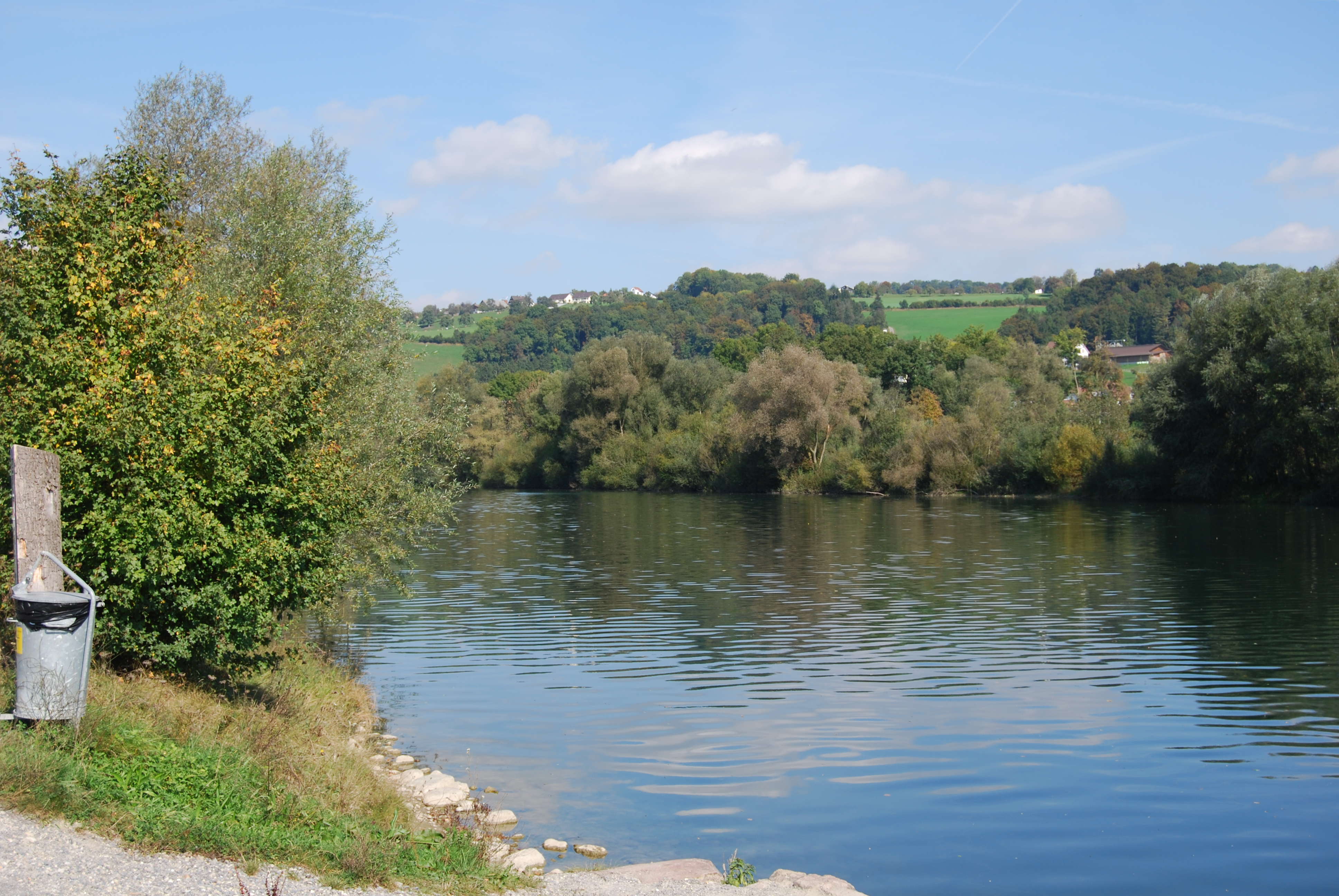 Flachsee between Rottenschwil and Unterlunkhofen, canton of Aargau, SwitzerlandEsperanto: Preĝejo de Unterlunkhofen, Kantono Argovio, Svislando